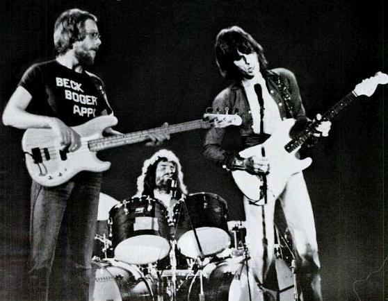 Trade ad for Beck, Bogert & Appice's selftitled albumTo better adapt it to his respective Wikipedia article, the ad was cropped and cleaned in a graphics editing program. The original can be viewed at the source below.